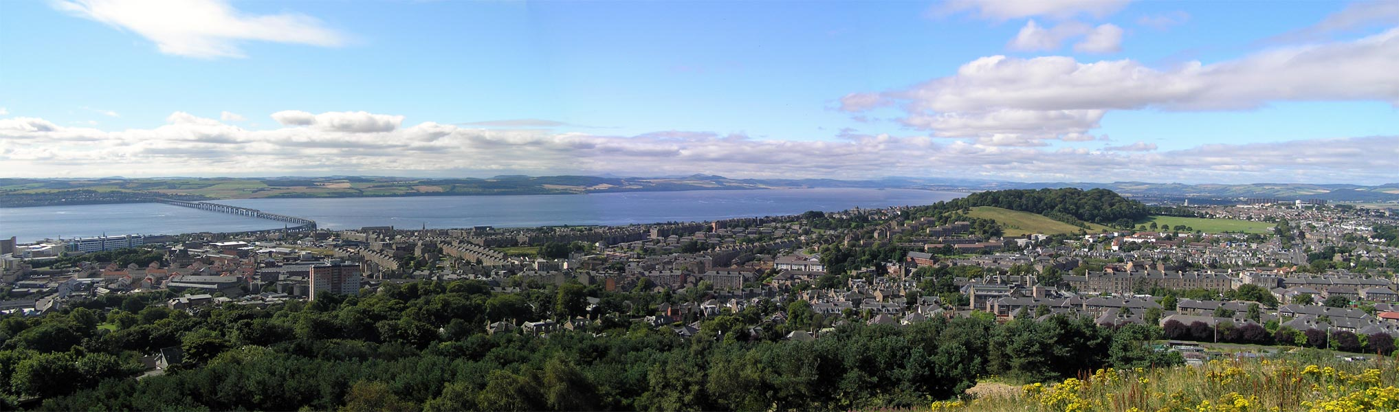 This short panorama taken by Joe Dorward on 24AUG07 shows Taybridge and Invergowrie bay from the Law